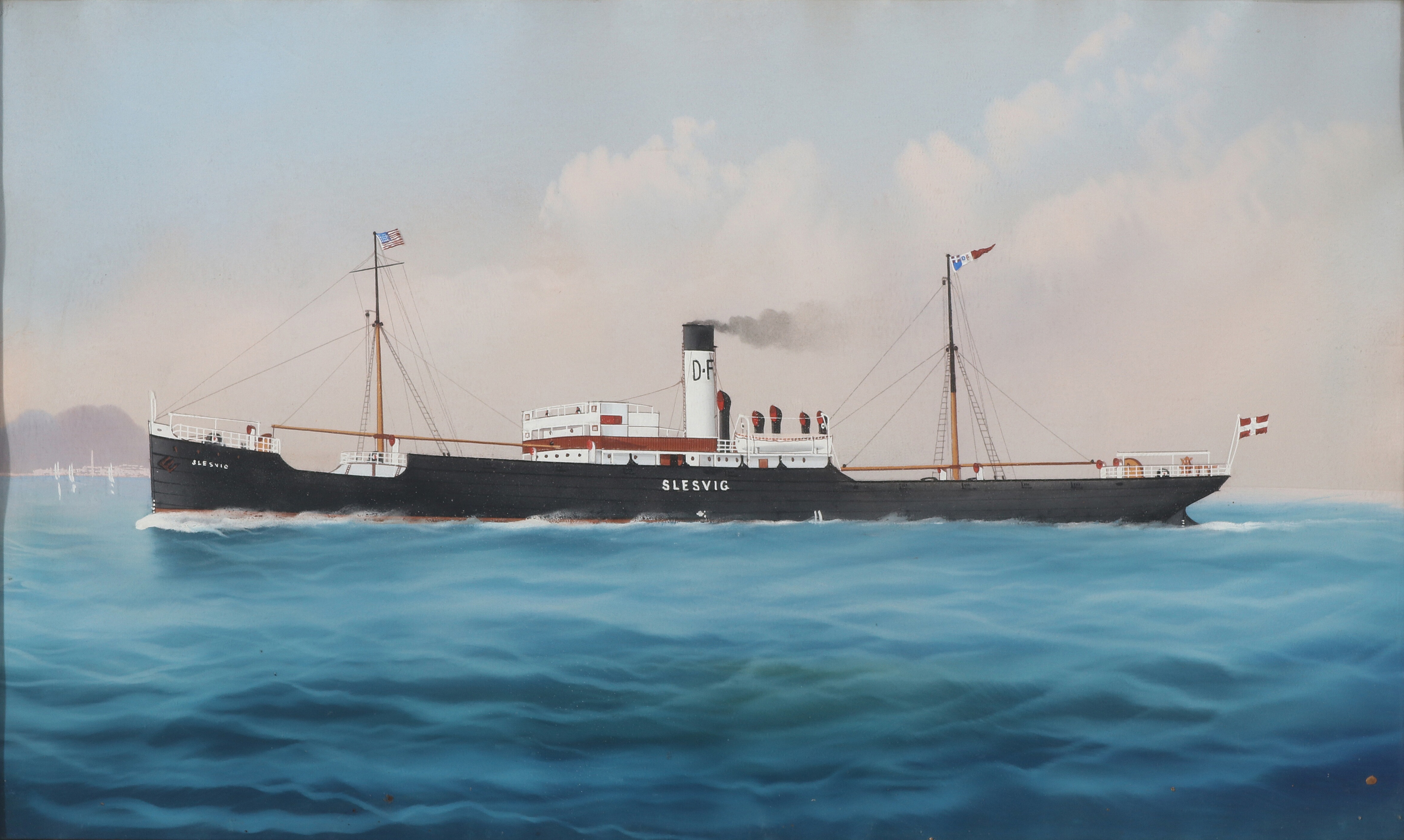 Built in 1883 at Kish Boolds in Sunderland as the Saint Joseph for Dussarget & Bonnin of Bordeaux. Bought in December 1902 by Dansk-Franske Dampskibsselskab in Esbjerg, Denmark, and named Slesvig. In April 1917 taken over by the United Kingdom and operated by Lambert Bros of London, keeping its name. Sank in collission with the Cormorant in August 1917.